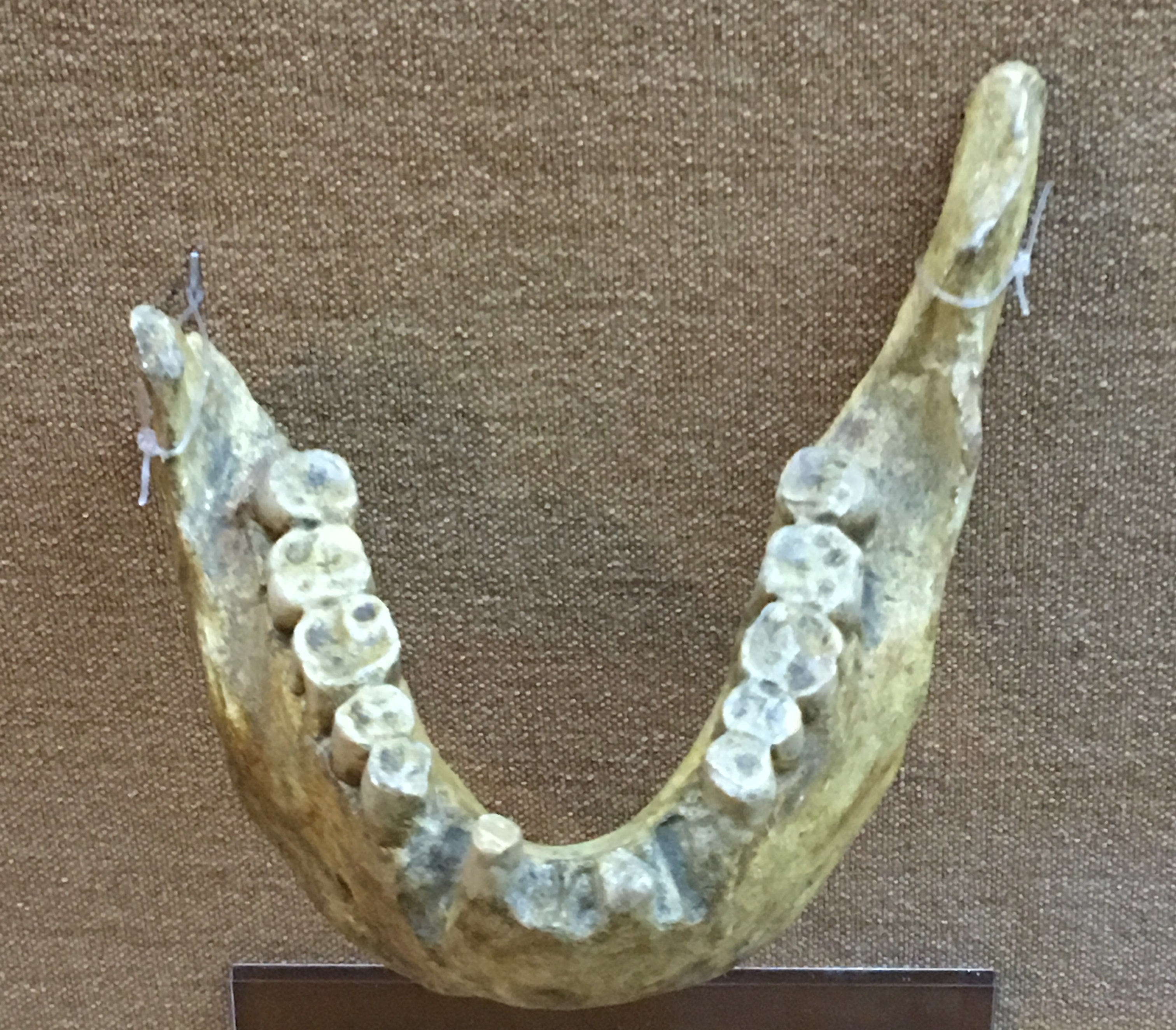 Hominid fossil reconstruction in the Beijing Museum of Natural History - China, July 2017.